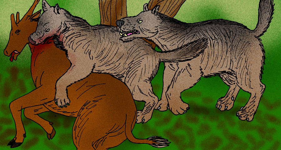 A pair of bear-dogs, Hemicyon sansansiensis, prepare to feast on a slain paleomerycid ungulate, in Miocene France. (C) Stanton F. Fink